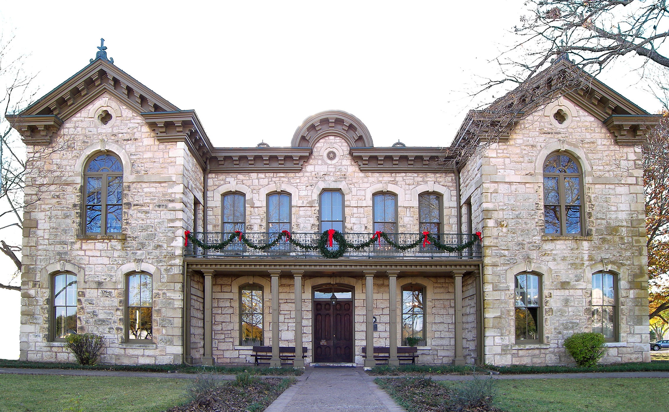 The Fredericksburg Memorial Library located in Fredericksburg, Texas, United States was designed by Alfred Giles and built in 1882. The site, which was the old Gillespie County Courthouse, was designated a Recorded Texas Historic Landmark in 1967 and listed on the National Register of Historic Places on March 11, 1971.